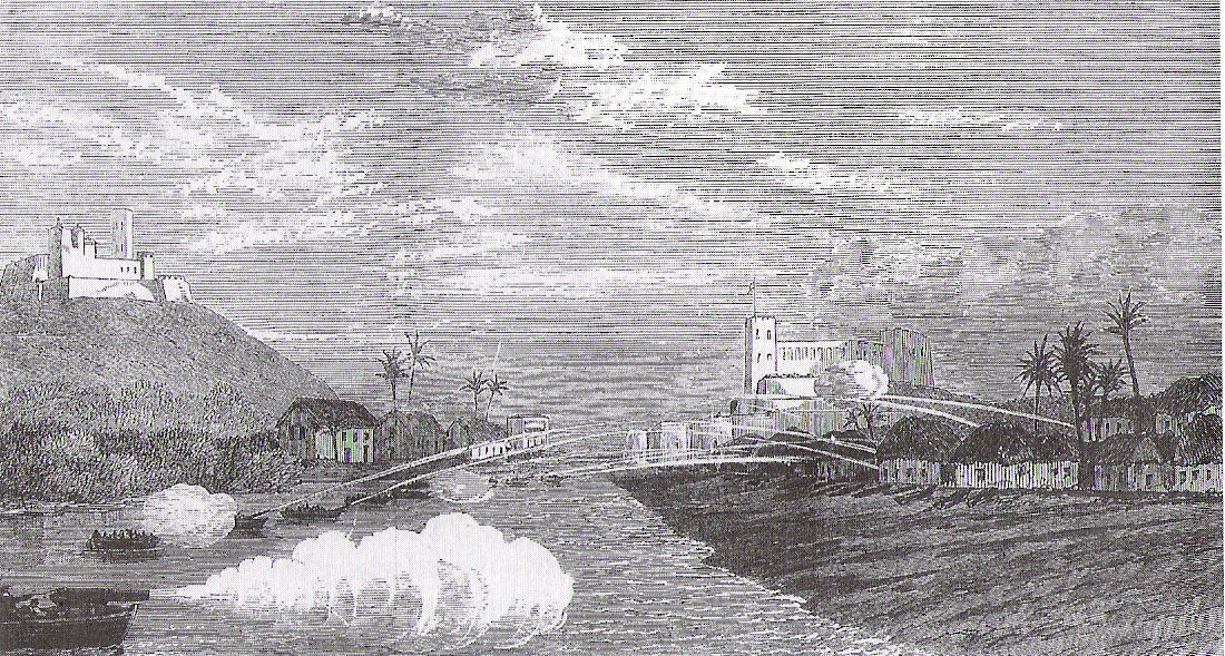 British bombardement of Elmina 1873, London News Picture Library of July 19